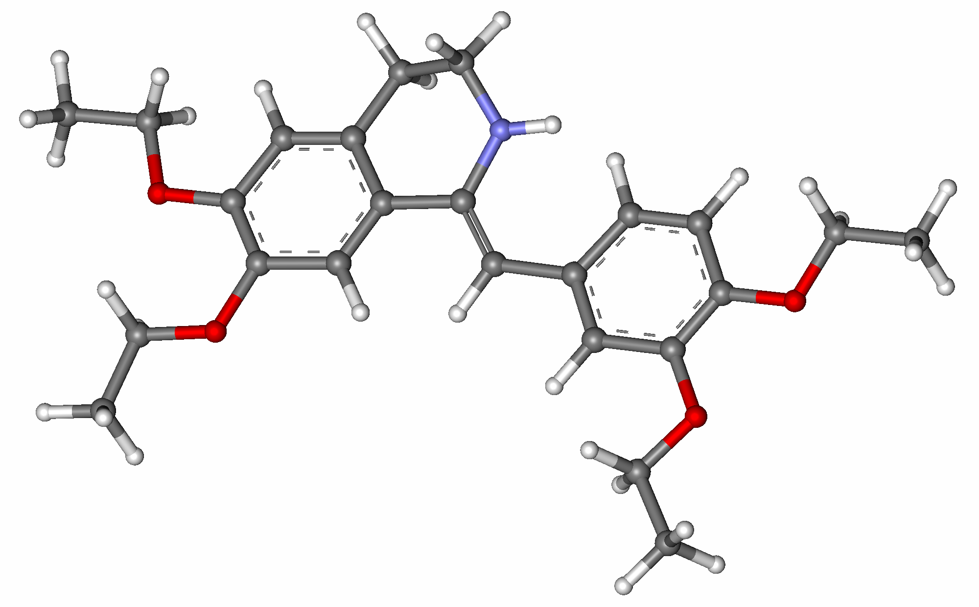 Ball-and-stick model of drotaverine molecule. The structure is taken from ChemSpider. ID 1361582